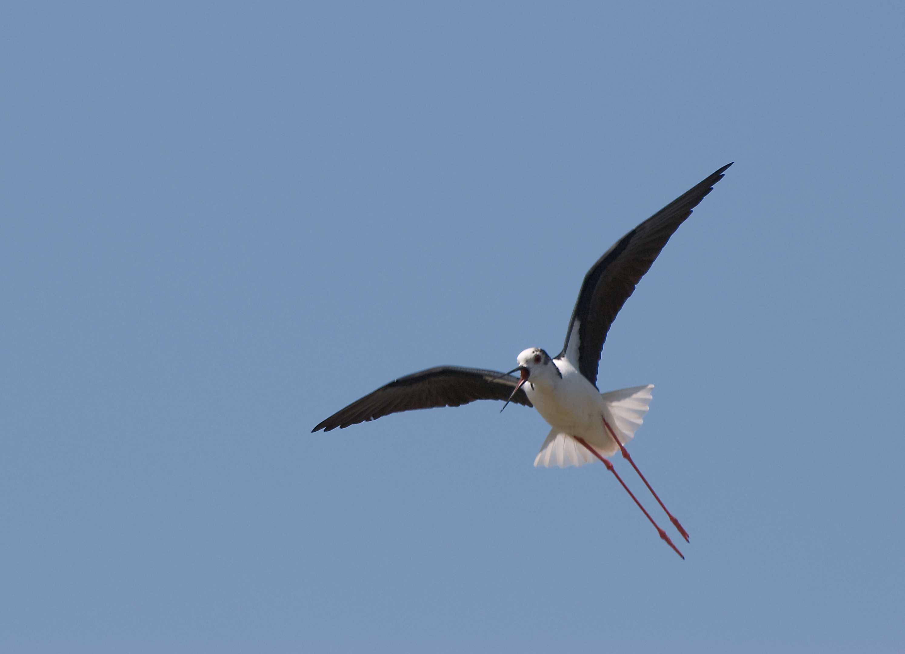 Common Stilt (Himantopus himantopus), Laguna di Venezia, Italy